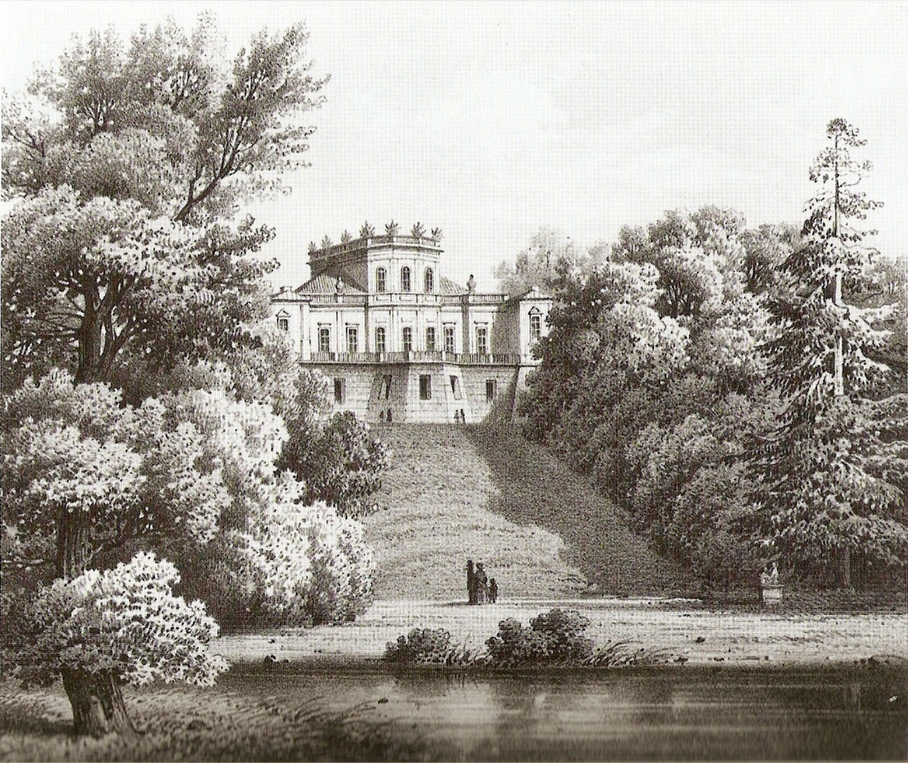 Czartoryski Palace in Puławy, Poland